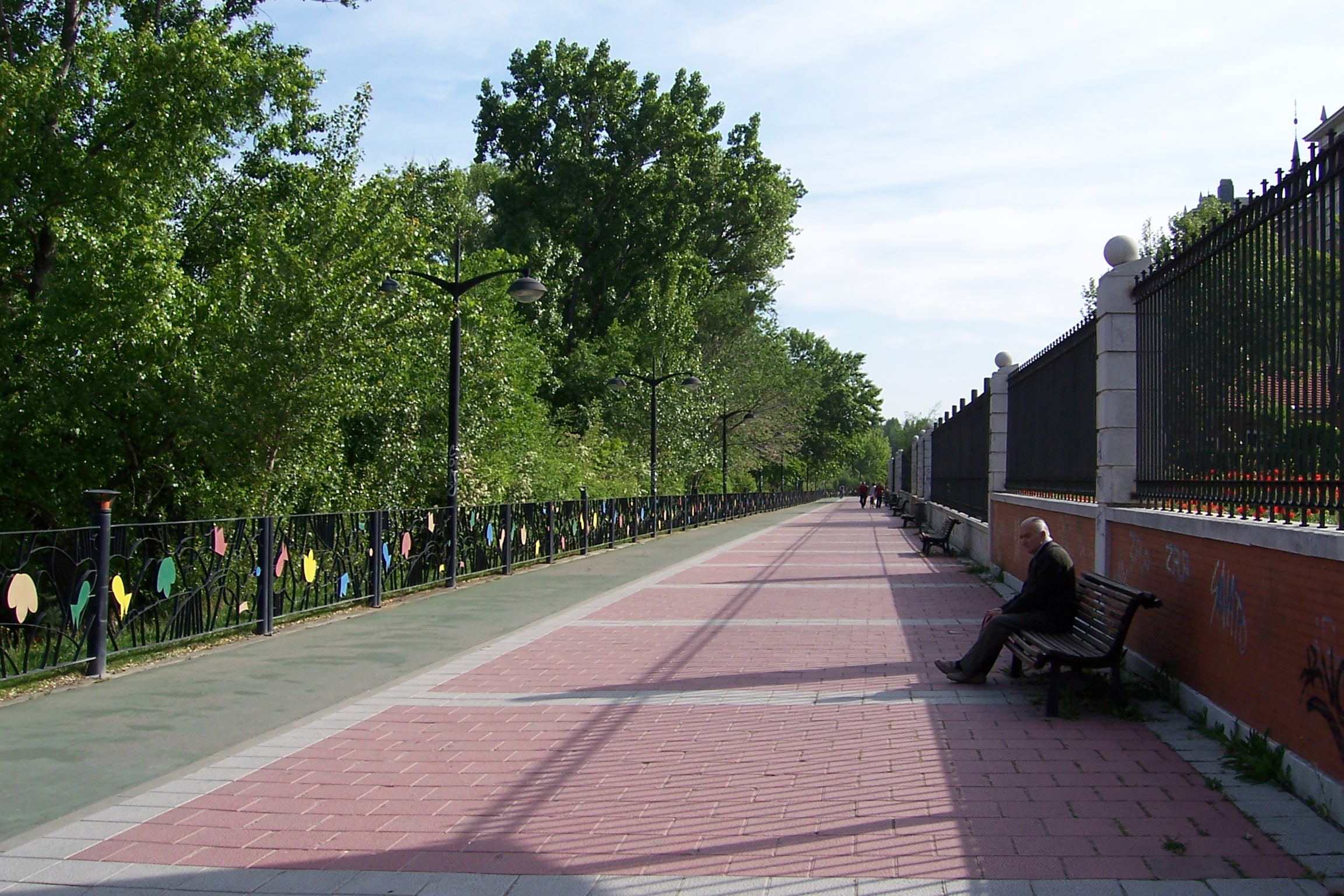 Promenade of the Renaissance bordering on the Ribera de Castilla (left bank of the river Pisuerga) in Valladolid (Spain). The colorful railing is a work by the artist Cristóbal Gabarrón.